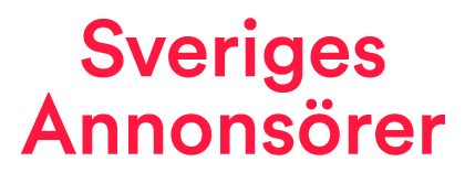 The logo of Sveriges Annonsörer in red